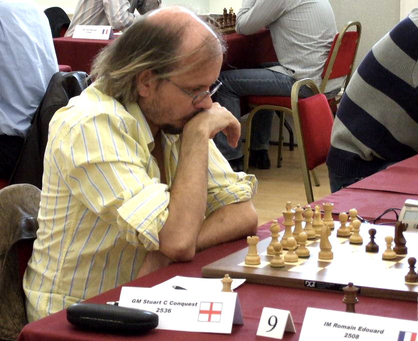 GM Stuart Conquest - Round 7 of 4th EU Individual Open Ch., Liverpool World Museum, William Brown Street